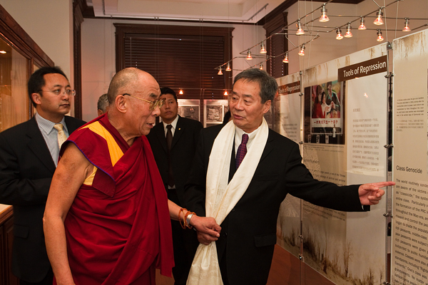 The Dalai Lama visits the Laogai Research Foundation and Museum on October 7, 2009.